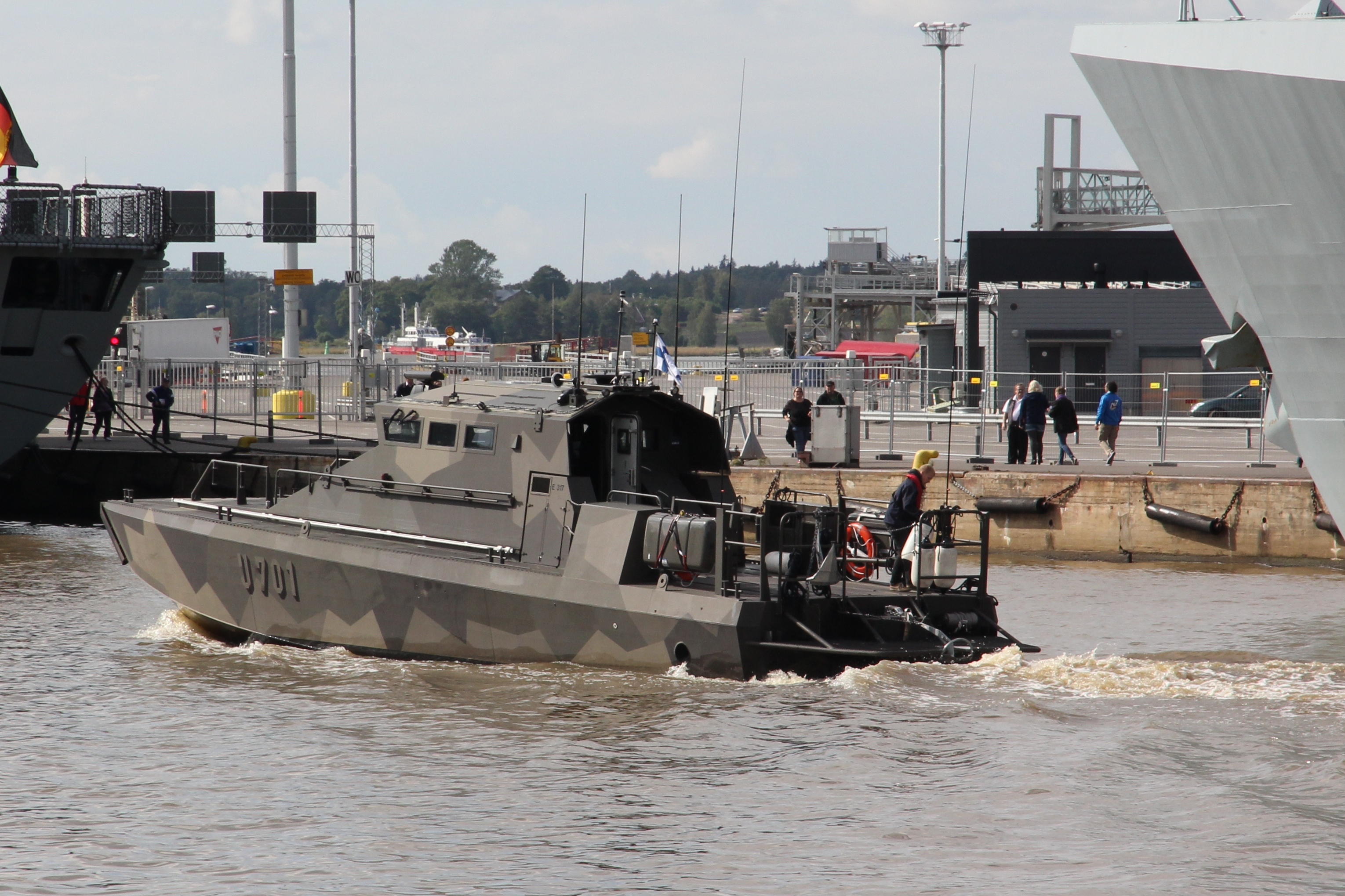 Finnish landing craft U701 in Aura river in Turku during the Northern Coasts 2014 exercise public pre sail event. This vessel is a brand new lead ship of the U700 Jehu class.